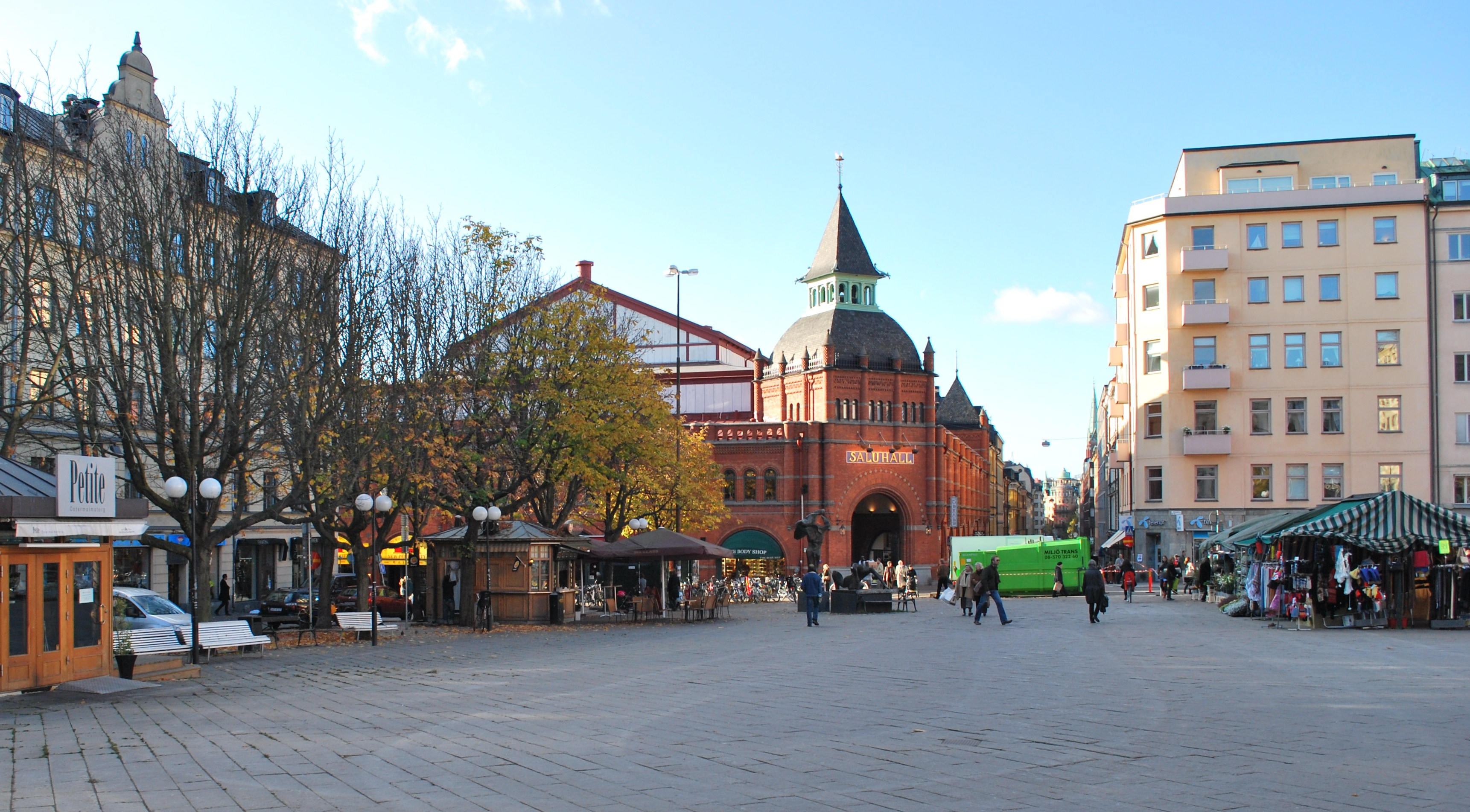 Östermalmstorg with Saluhall (food market), Östermalm, Stockholm